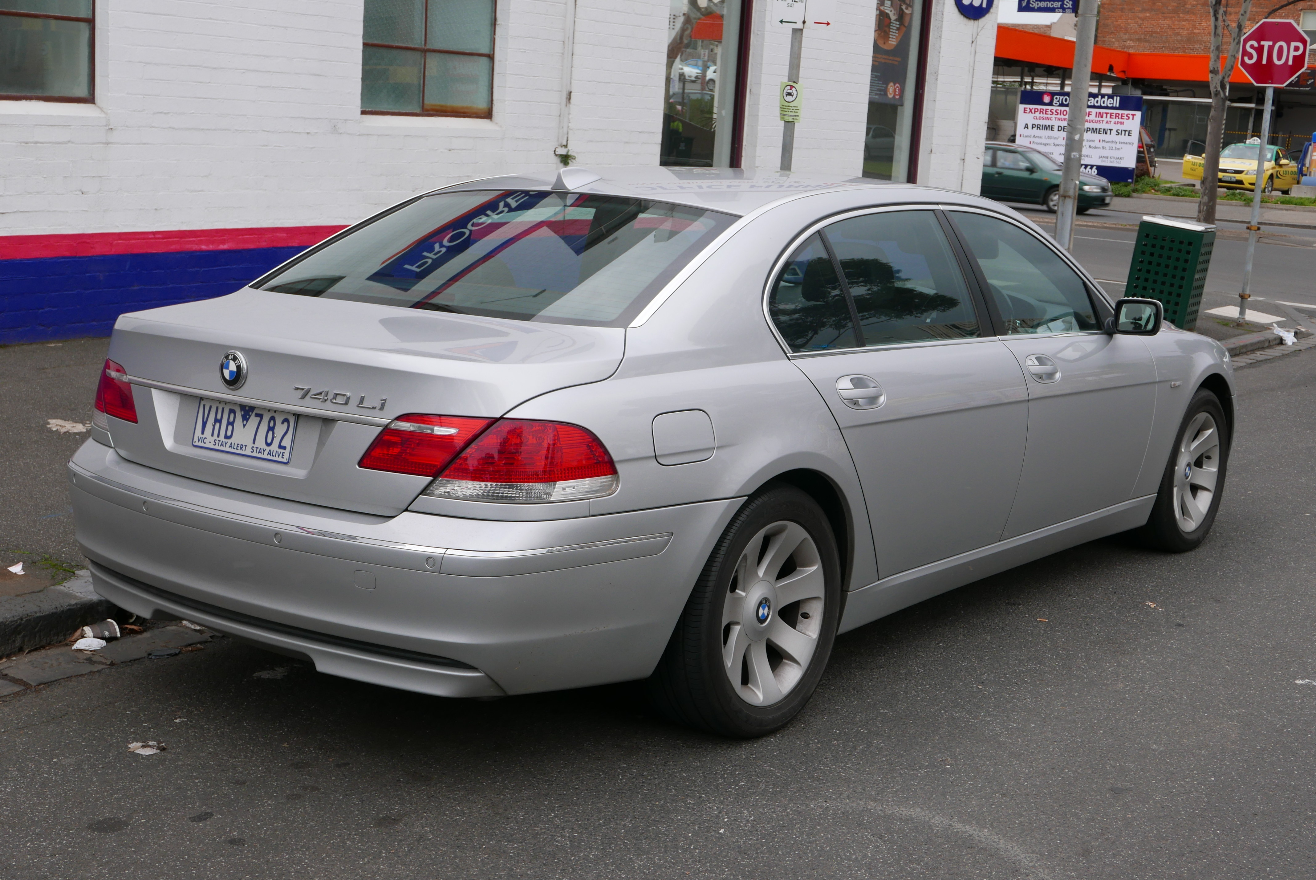 2005 BMW 740Li (E66) sedan. Despite the date discrepancy between the description and the vehicle registration information below, a check of the VIN reveals a "production date" of 28 October 2005. Photographed in West Melbourne, Victoria, Australia. Vehicle registration enquiry resultsJurisdictionVictoriaRegistrationVHB782Chassis codeWBAHN62080DN55479Engine code52253652Compliance date2006-01Year of manufacture2006